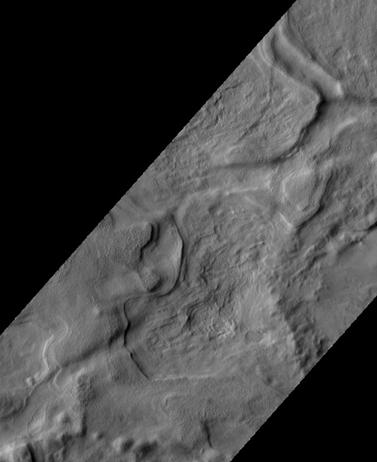 Chasma Boreale Channels, as seen by hirise. Location is 80.6 North and 300.5 East. Image was taken by the Mars Reconnaissance Orbiter's HiRISE. The HiRISE camera was built by Ball Aerospace and Technology Corporation and is operated by the University of Arizona.